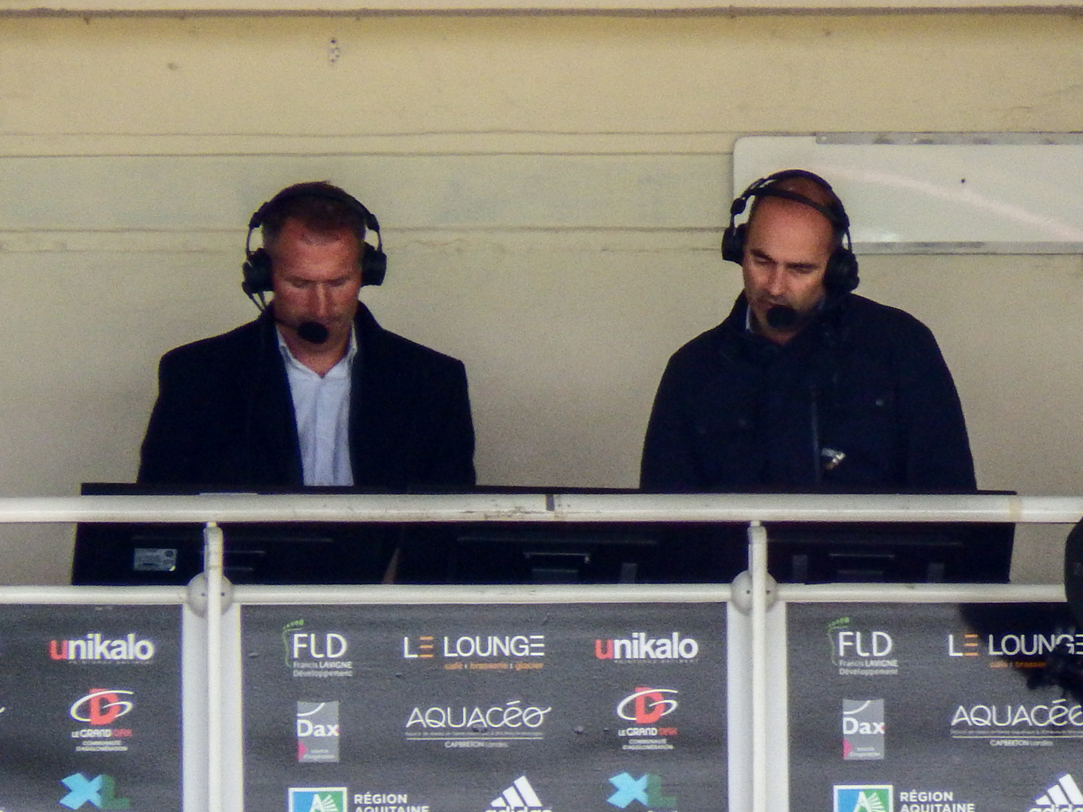 Pro D2 2015-2016 — 22 May 2016, Stade Maurice-Boyau. Match between: US Dax — USA Perpignan